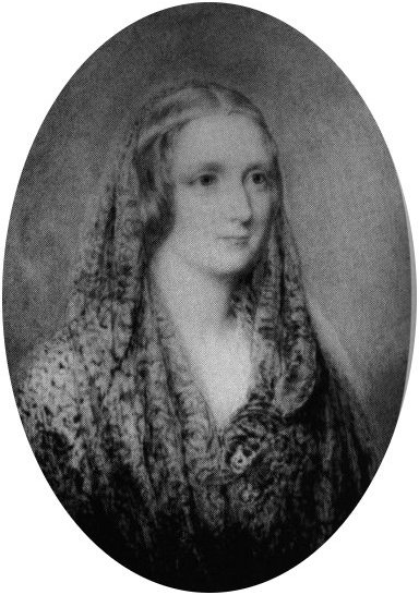 Reginald Easton painted this miniature portrait of Mary Shelley, on a flax coloured background. It incorporates a circlet backed by blue, the same seen in the Rothwell painting and a shawl.[1][2]